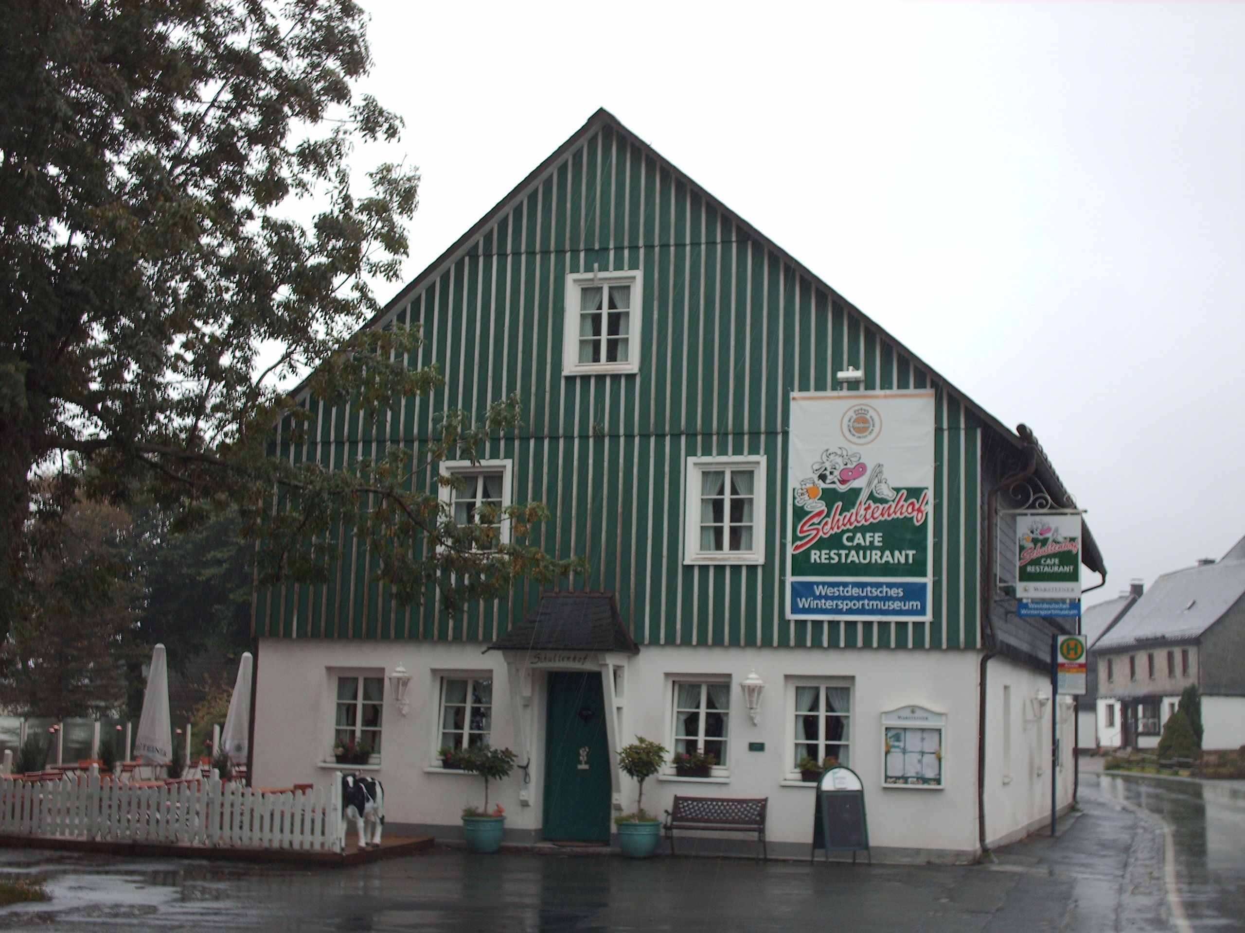 Western German museum of winter sports, Winterberg, Germany check usage